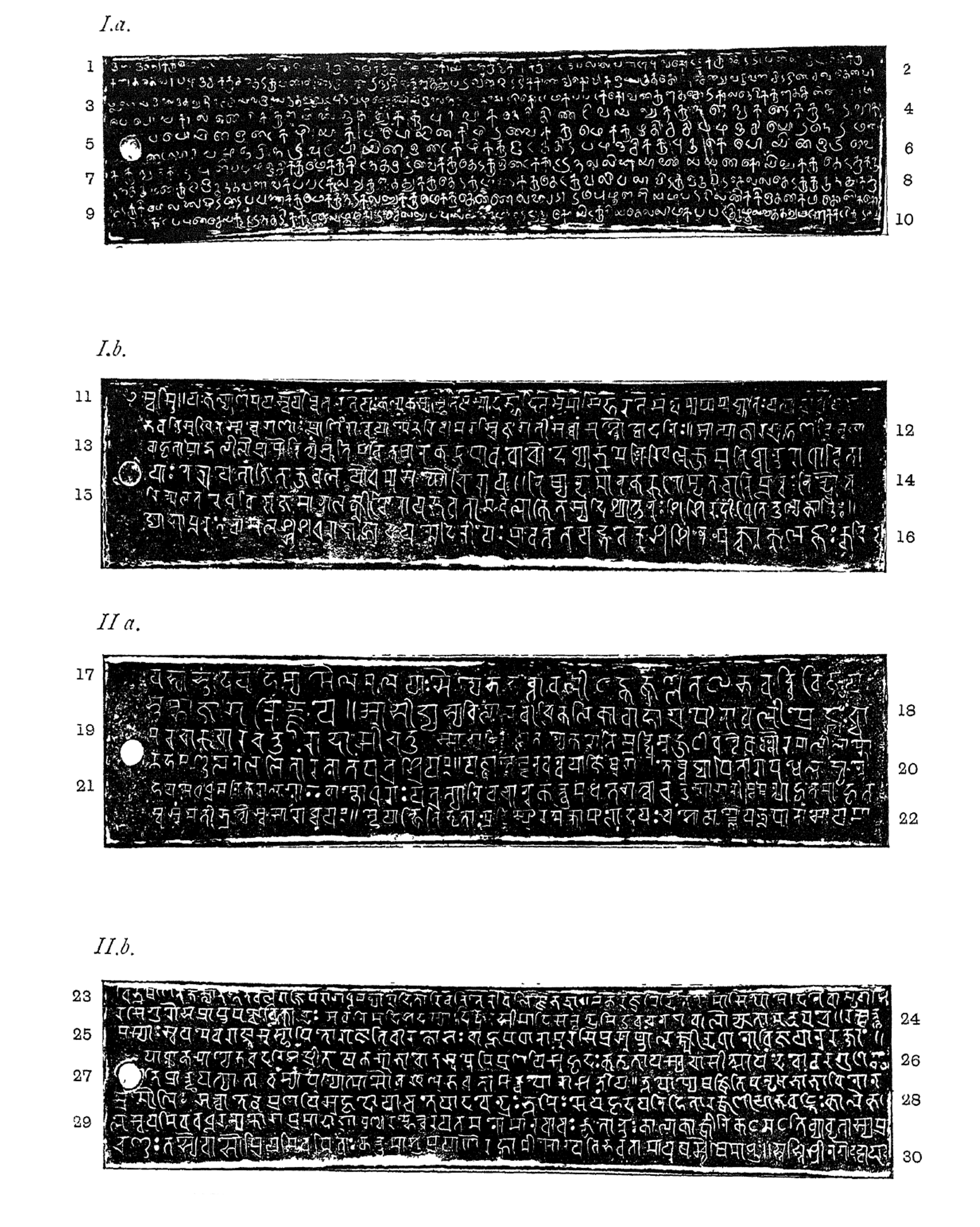 Inscription of king Vikramaditya Varaguna of Ay dynasty (south India)